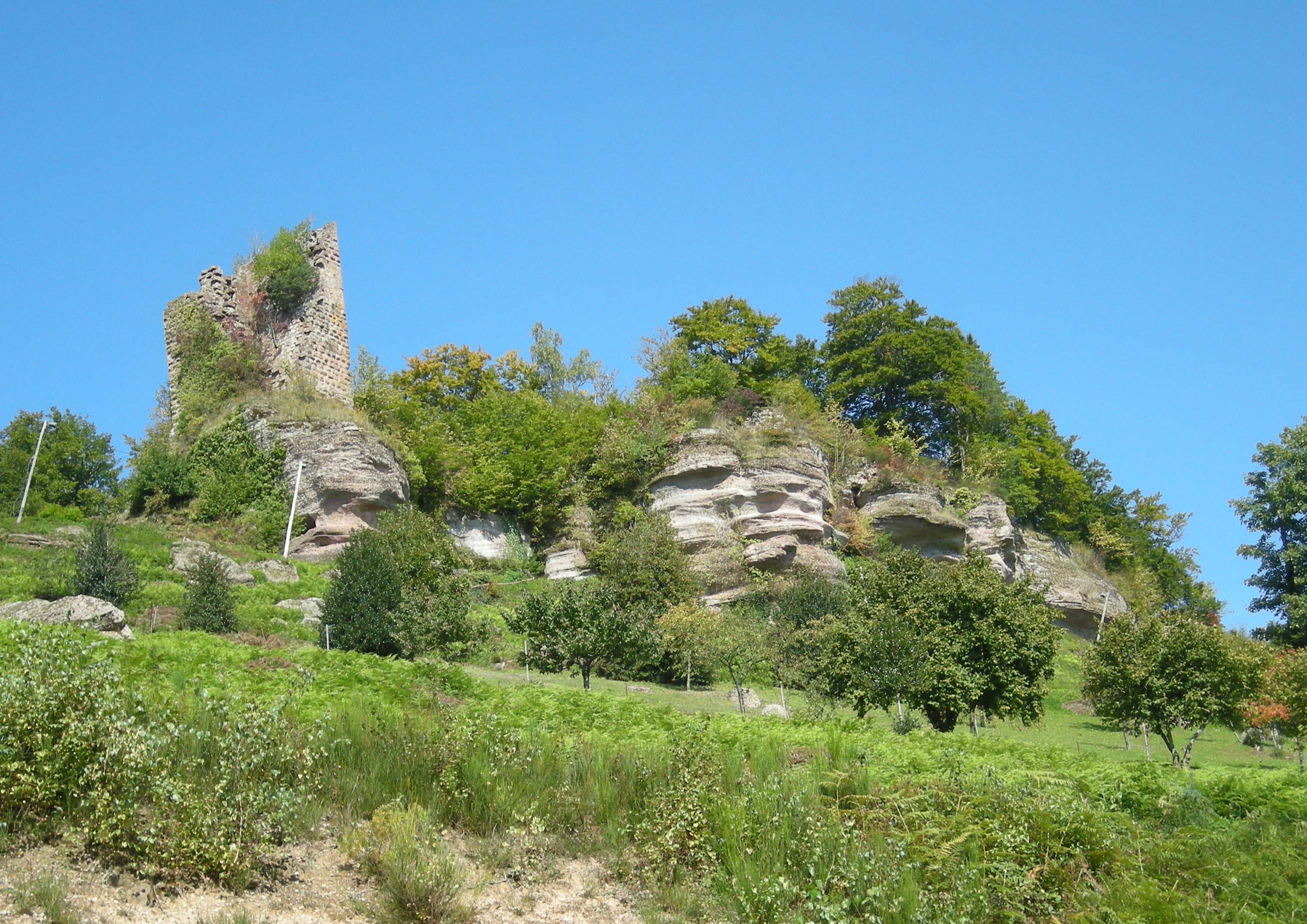 Ruins of Pierre-Percée castle (Meurthe-et-Moselle)